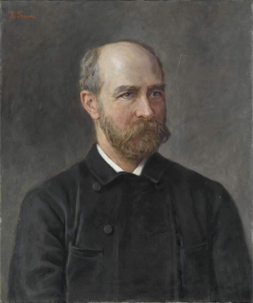 Painting after a photograph from ca. 1890.